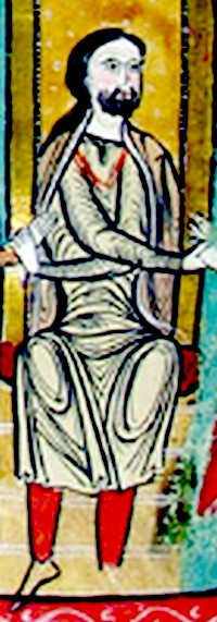 Liber Feudorum Maior